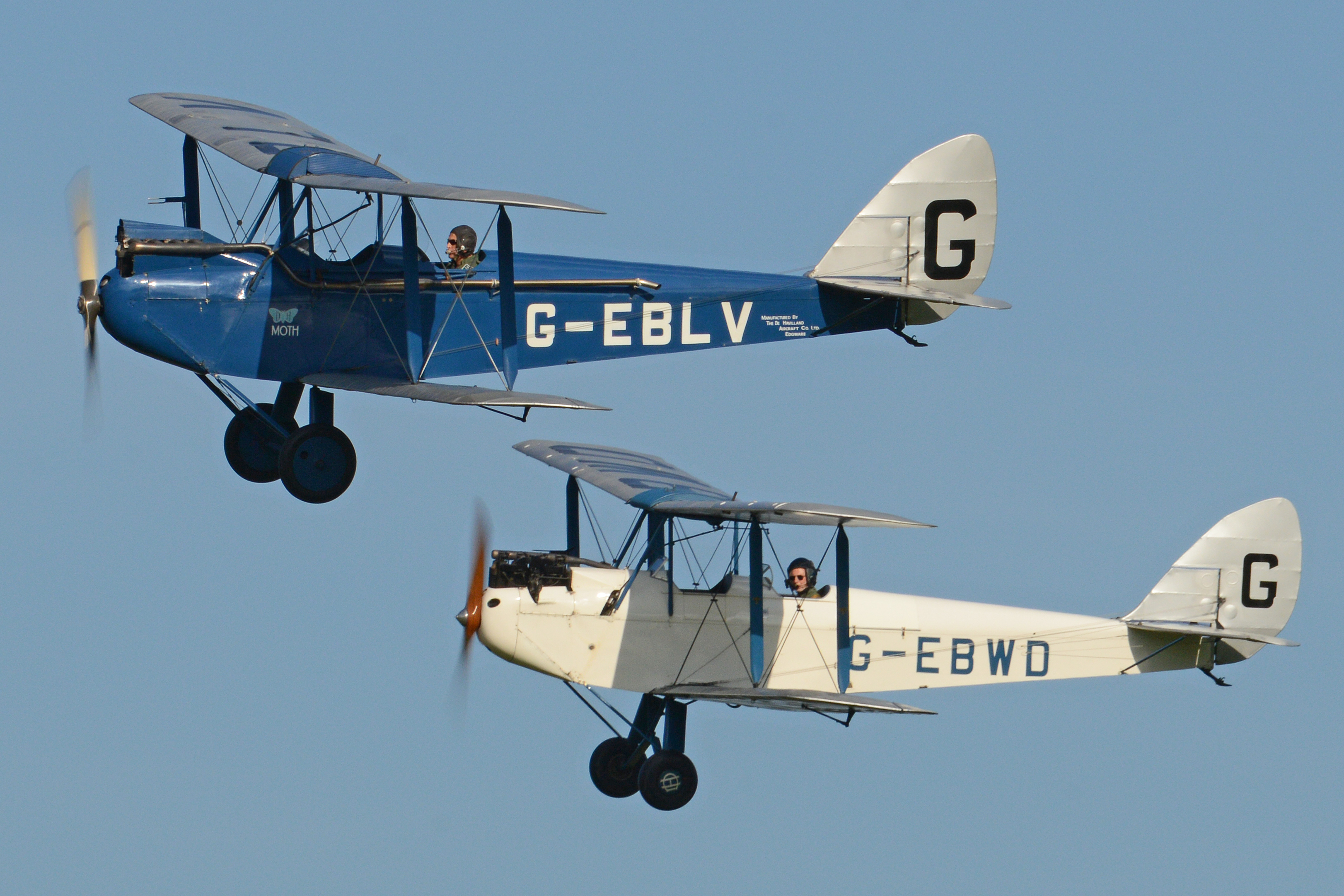 Classic DH60 Moth pair in beautiful conditions. Leading is BAE Systems owned 1925 Cirrus Moth 'G-EBLV', while trailing is the Shuttleworth Collections 1928 DH60X Hermes Moth 'G-EBWD'. The pair are seen displaying at the collections Evening Airshow, Old Warden, Bedfordshire, UK. 17th June 2017.